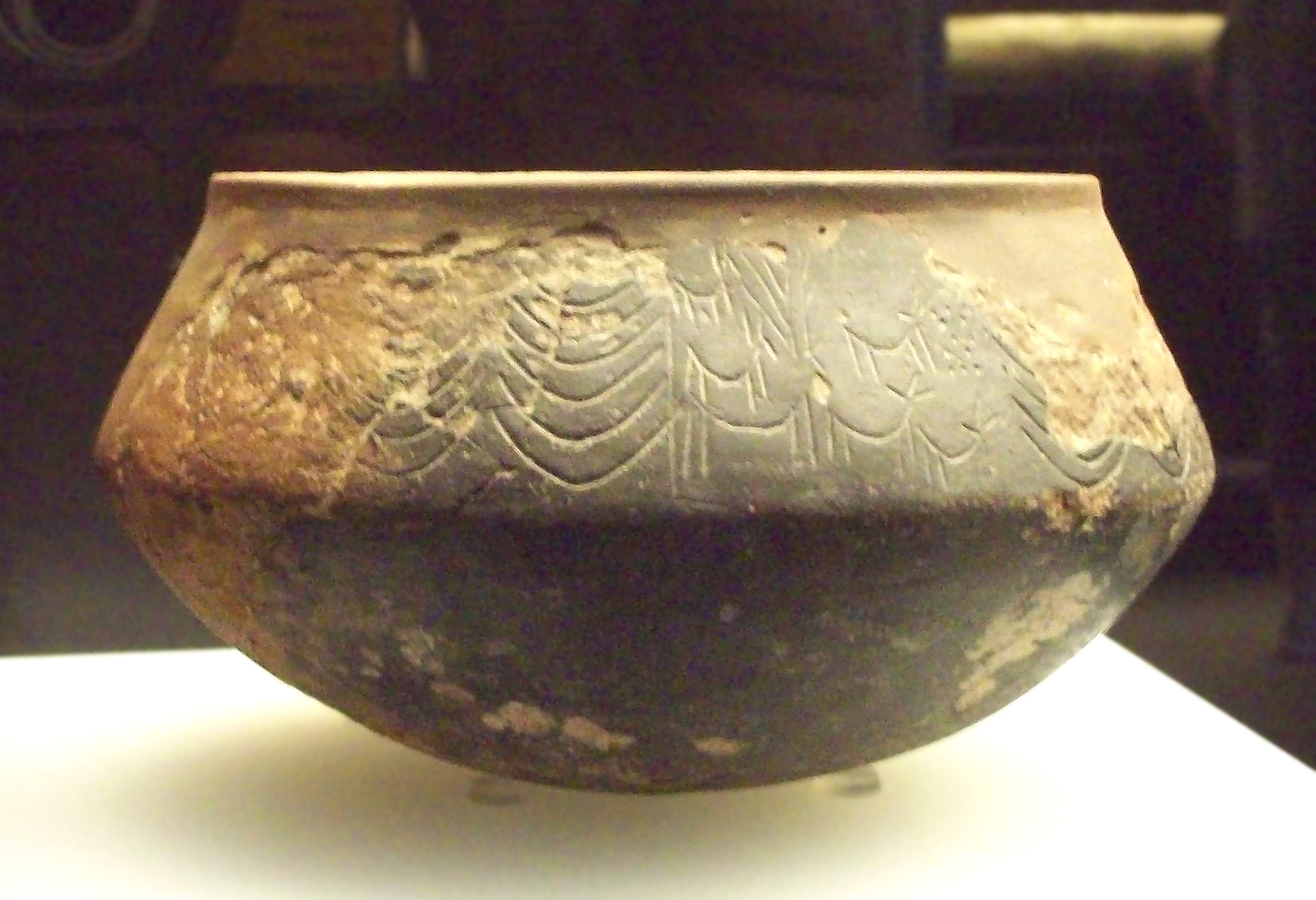 A Chalcolithic bowl decorated with deers and other incised schematic figures.